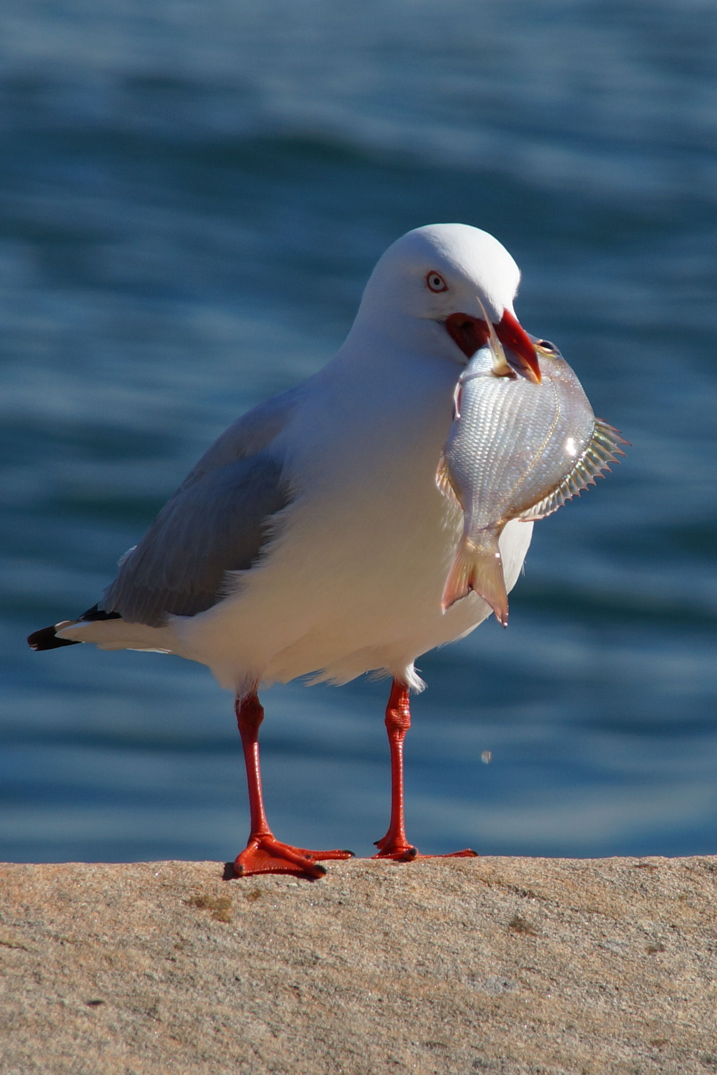 Silver gull with prey, Royal Botanic Gardens, Sydney, Australia